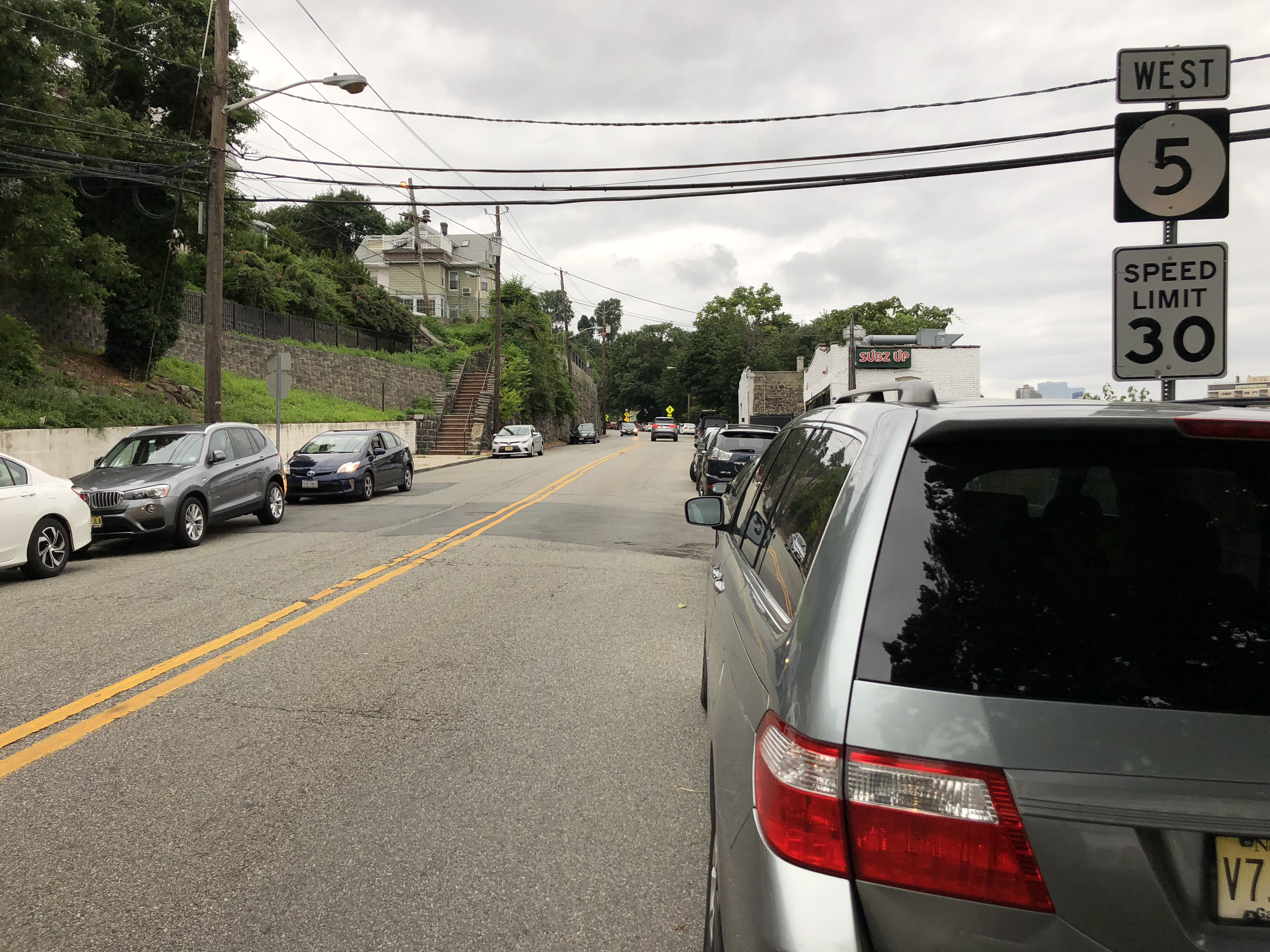 View west along New Jersey State Route 5 just west of Bergen County Route 505 (River Road) in Edgewater, Bergen County, New Jersey